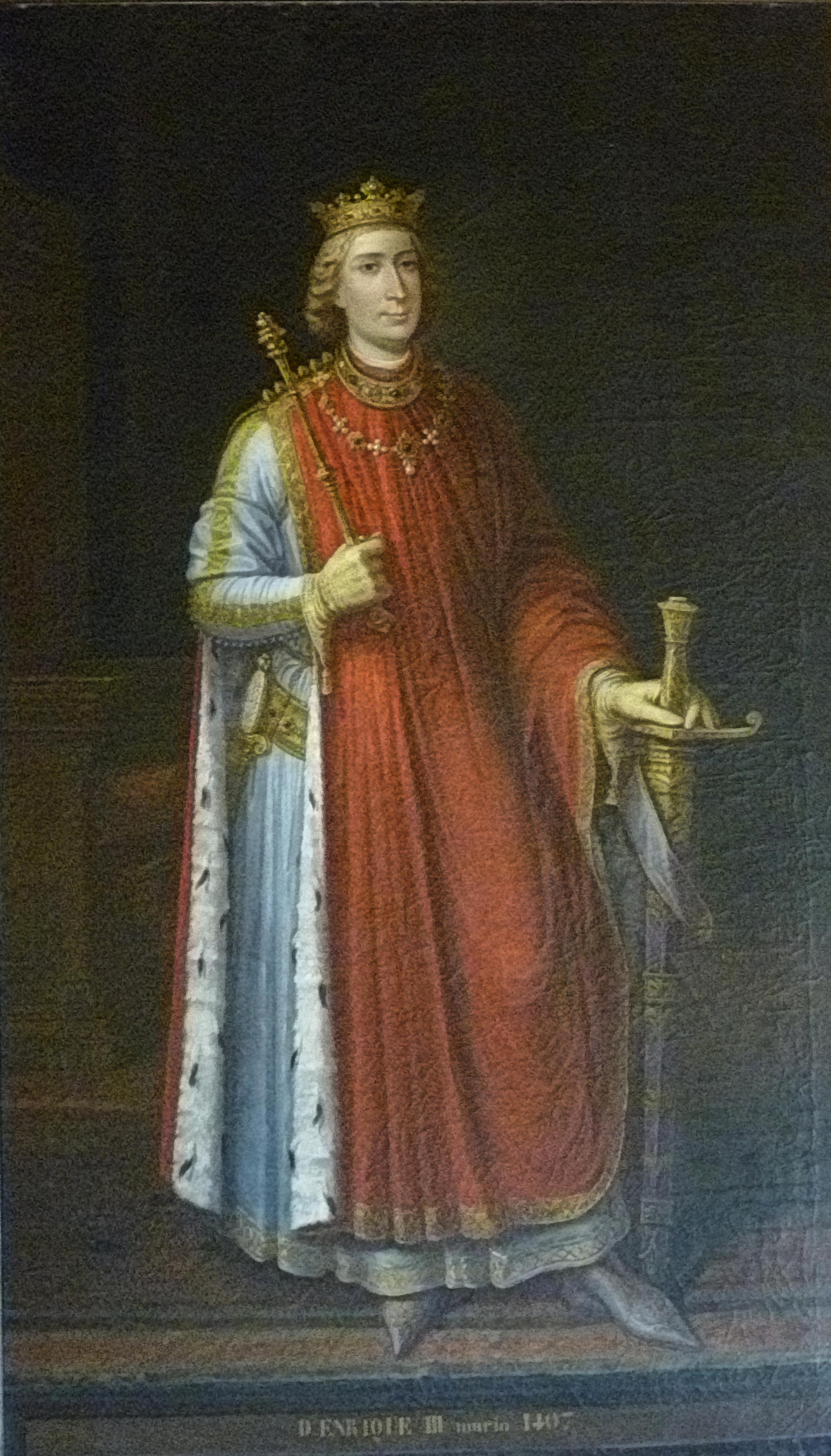 "Henry III of Castile" by Calixto Ortega; Hall of the Monarchs (Alcázar of Segovia), Spain